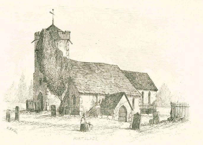 Etching by R. H. Nibbs (1816 - 1893) of parish church at Portslade, East Sussex, England